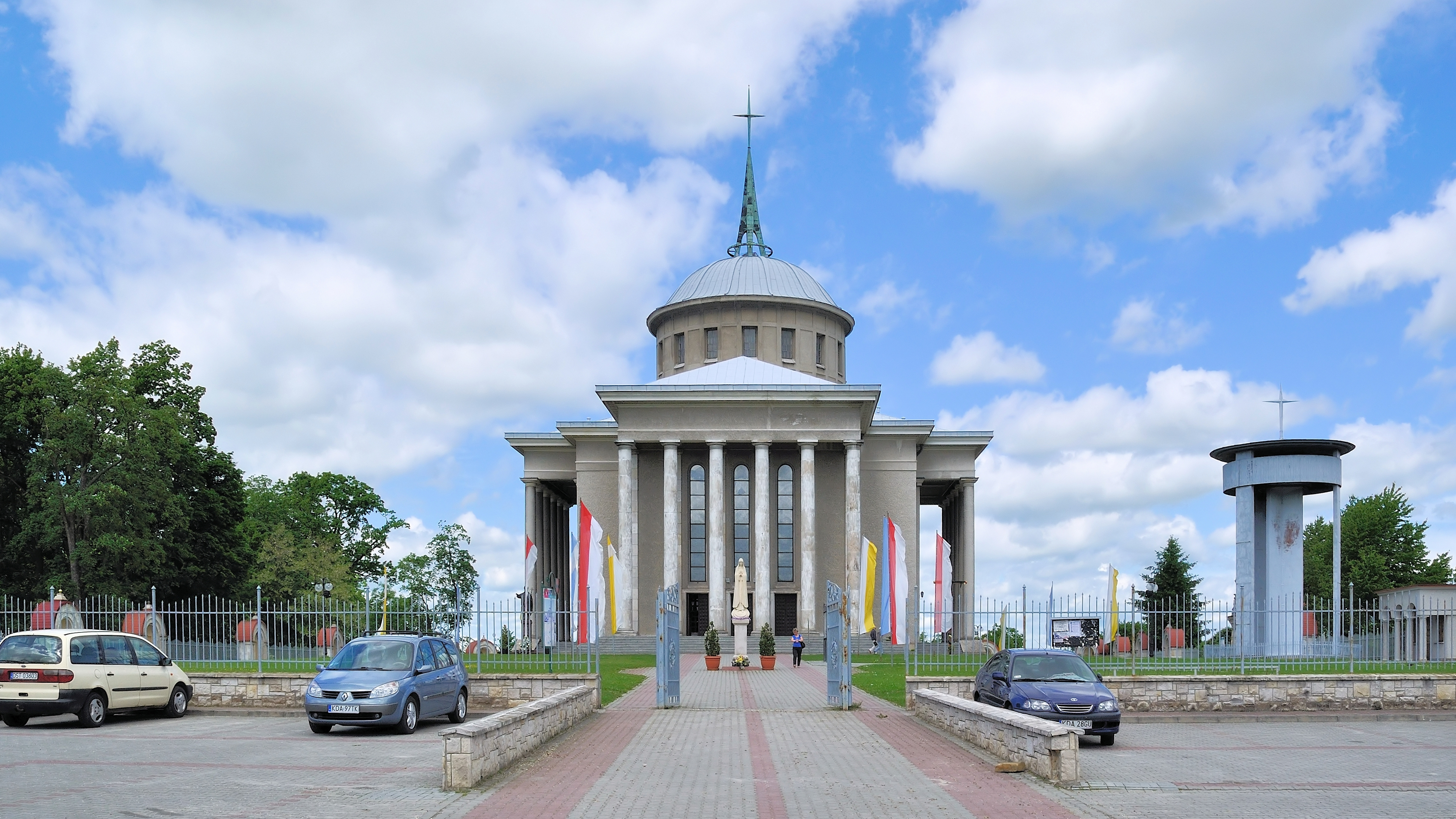 Church of Holy Virgin Mary of Scapular in Dąbrowa Tarnowska